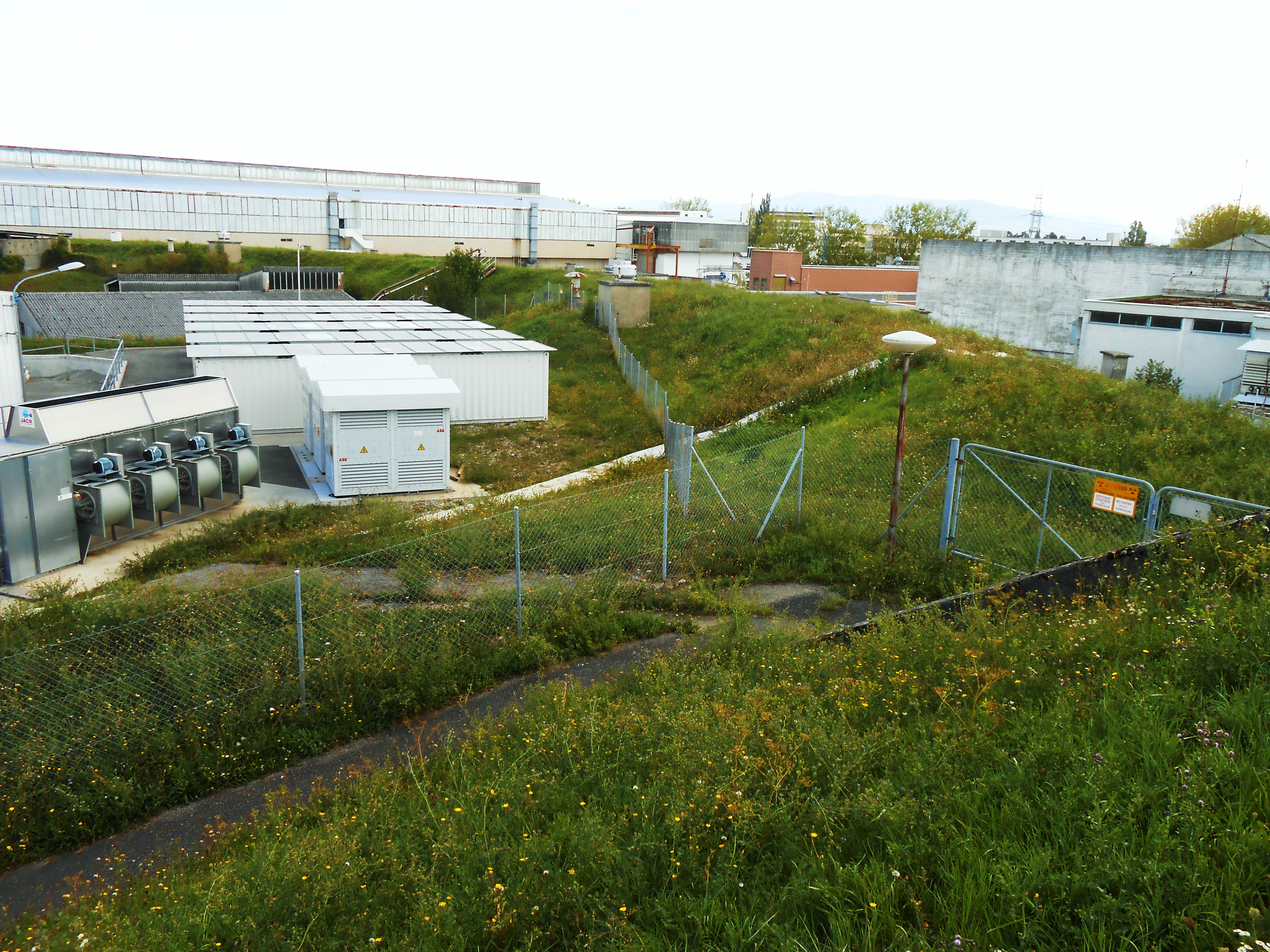 The surface above the PS at CERN. The ring-shaped accelerator is covered by a green circular hill.